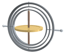 Single frame of gyroscope animation, showing 4-axis aligned, still exhibiting gimbal lock problem.